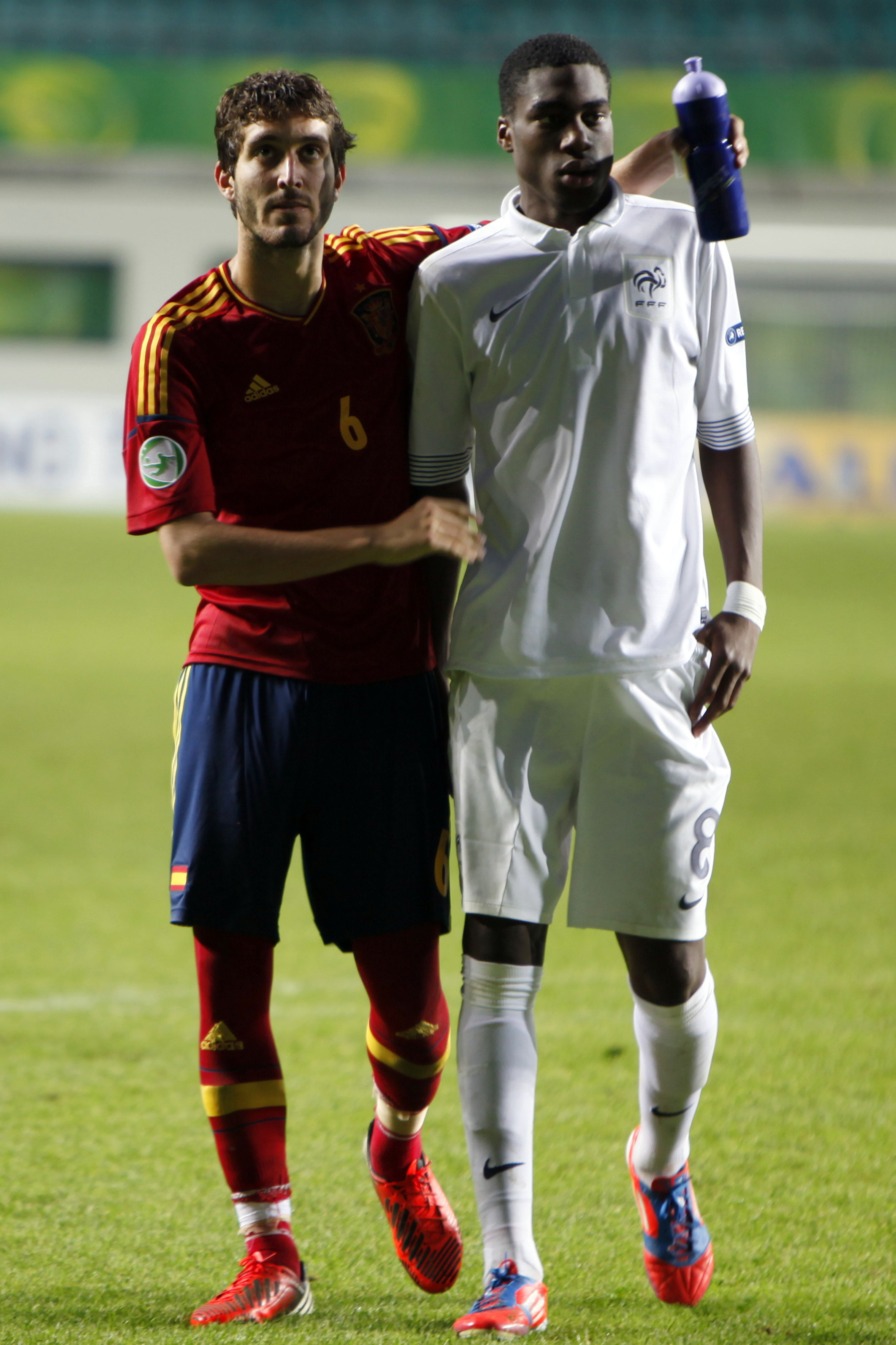 José Campaña and Geoffrey Kondogbia after Spain-France, UEFA Euro U19 2012.